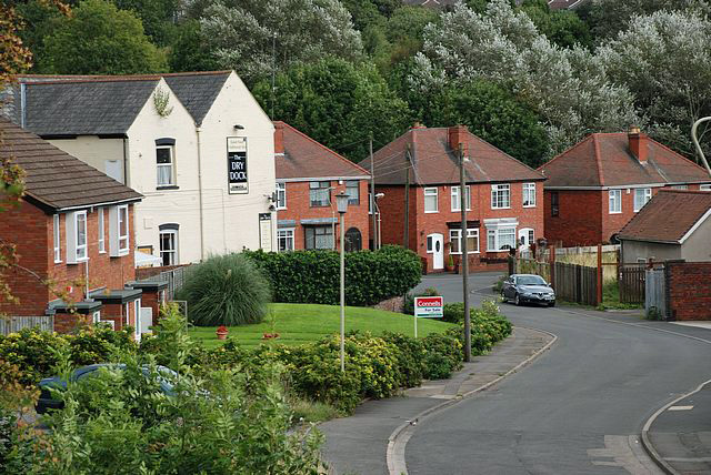 Windmill End, Netherton The white building is the Dry Dock public house.